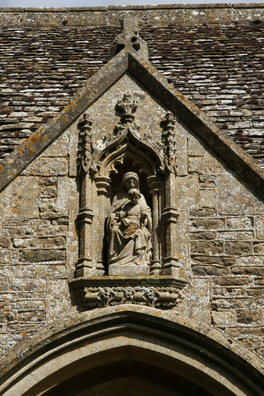 Gothic Revival relief of the Madonna and Child on the porch of the parish church of St Mary the Virgin, Hethe Road, Hardwick, Cherwell District, Oxfordshire